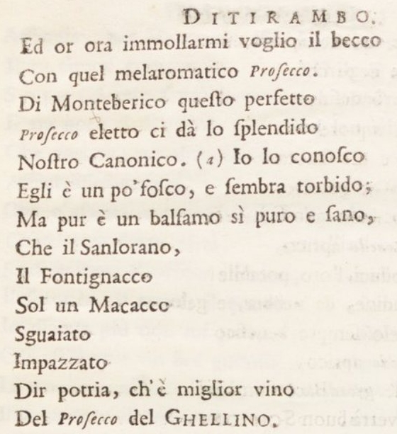 First verses with word Prosecco from "Il Roccolo Ditirambo" (1754)